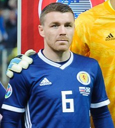 Scottish footballer John Fleck on 10 October 2019, during the 2020 UEFA European Championship qualifying match between Scotland and Russia in Moscow.